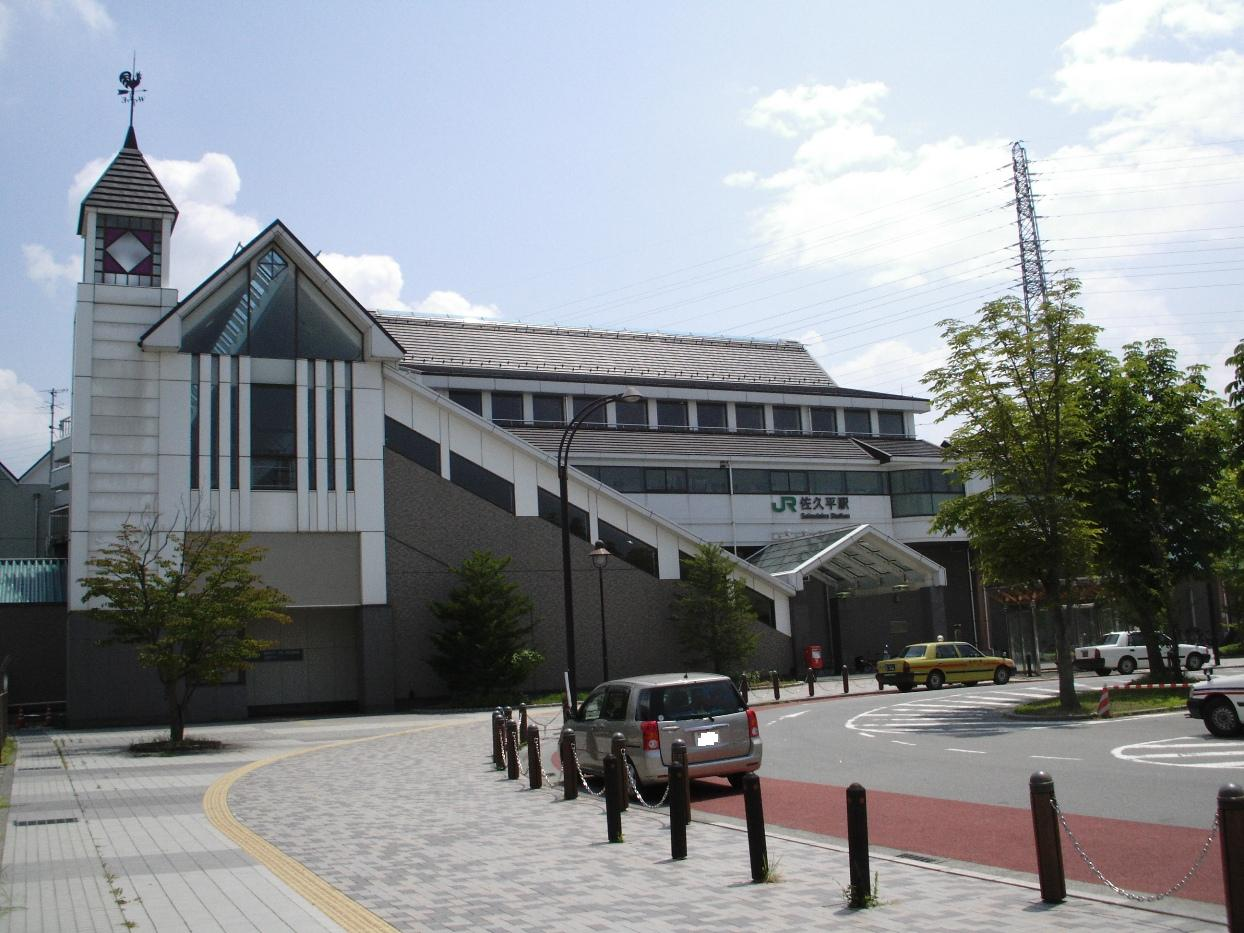 Sakudaira Station Asama Entrance